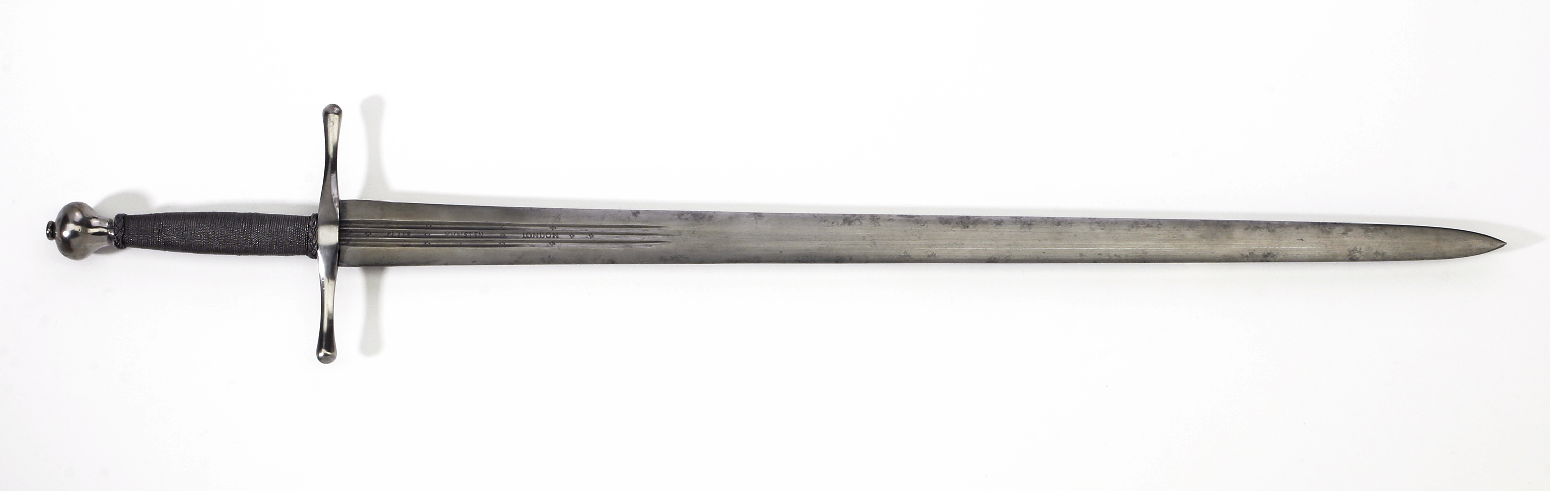 Sword Note: For documentary purposes the original description has been retained. Factual corrections and alternative descriptions are encouraged separately from the original description.svärd - LRK 5073